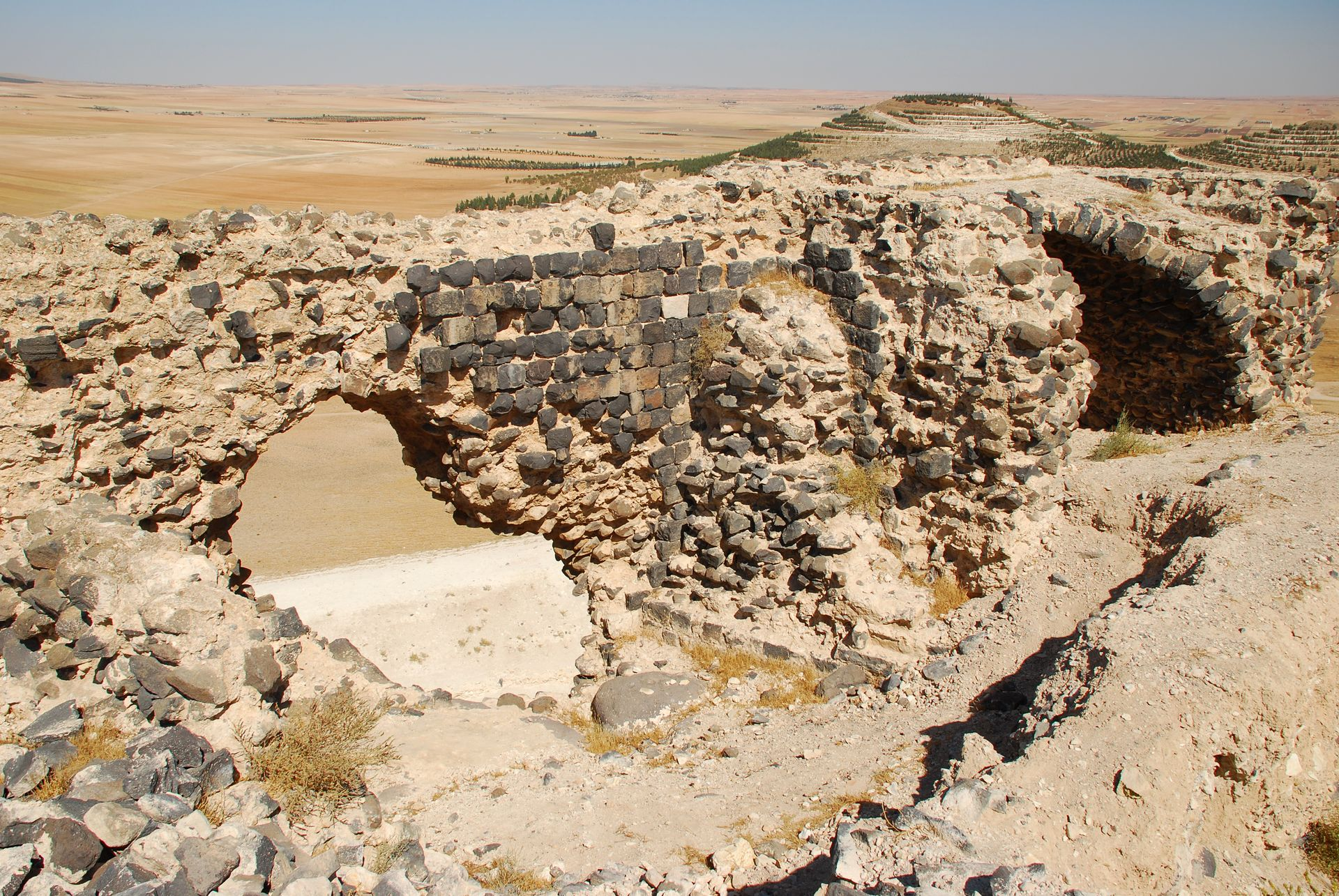 Shmemis castle near Salamiyya, Syria